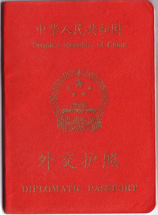 Cover of a Chinese diplomatic passport issued in 1992. Personal scan by Erlkonig.